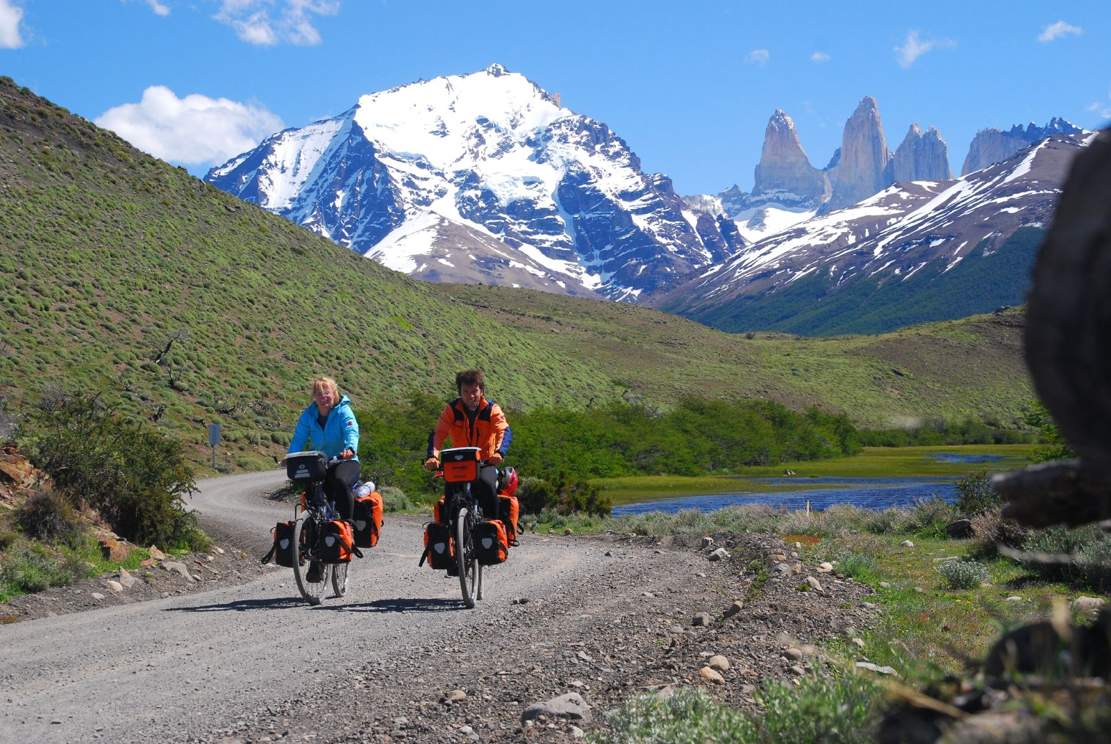 Selected images of magical-world's Patagonia Cycling set